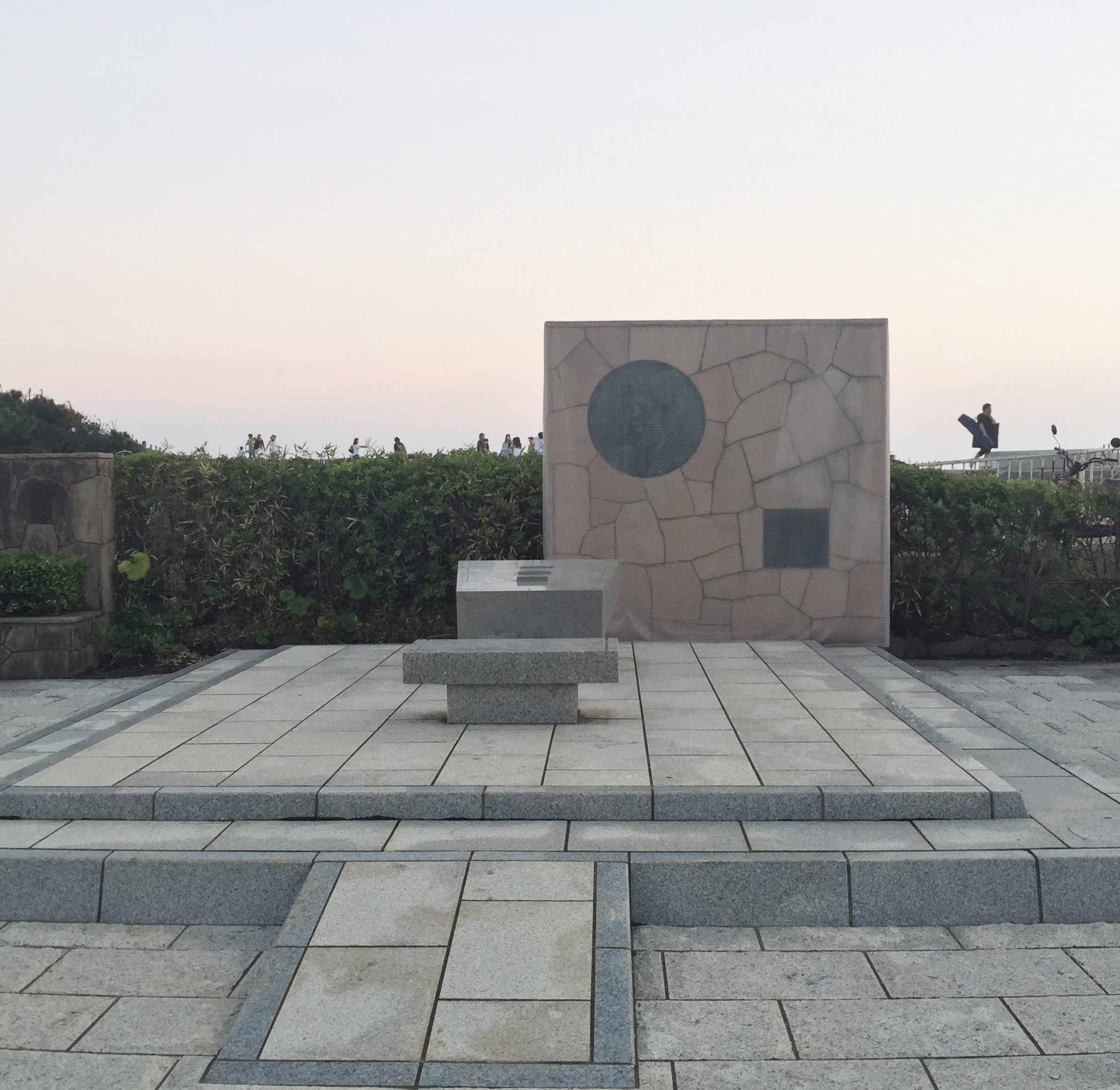 Public Square of Monument for NIE ER at KUGENUMA Beach, Fujisawa City, Japan 中文（中国大陆）: 日本 藤泽市 鹄沼海岸 聂耳纪念广场